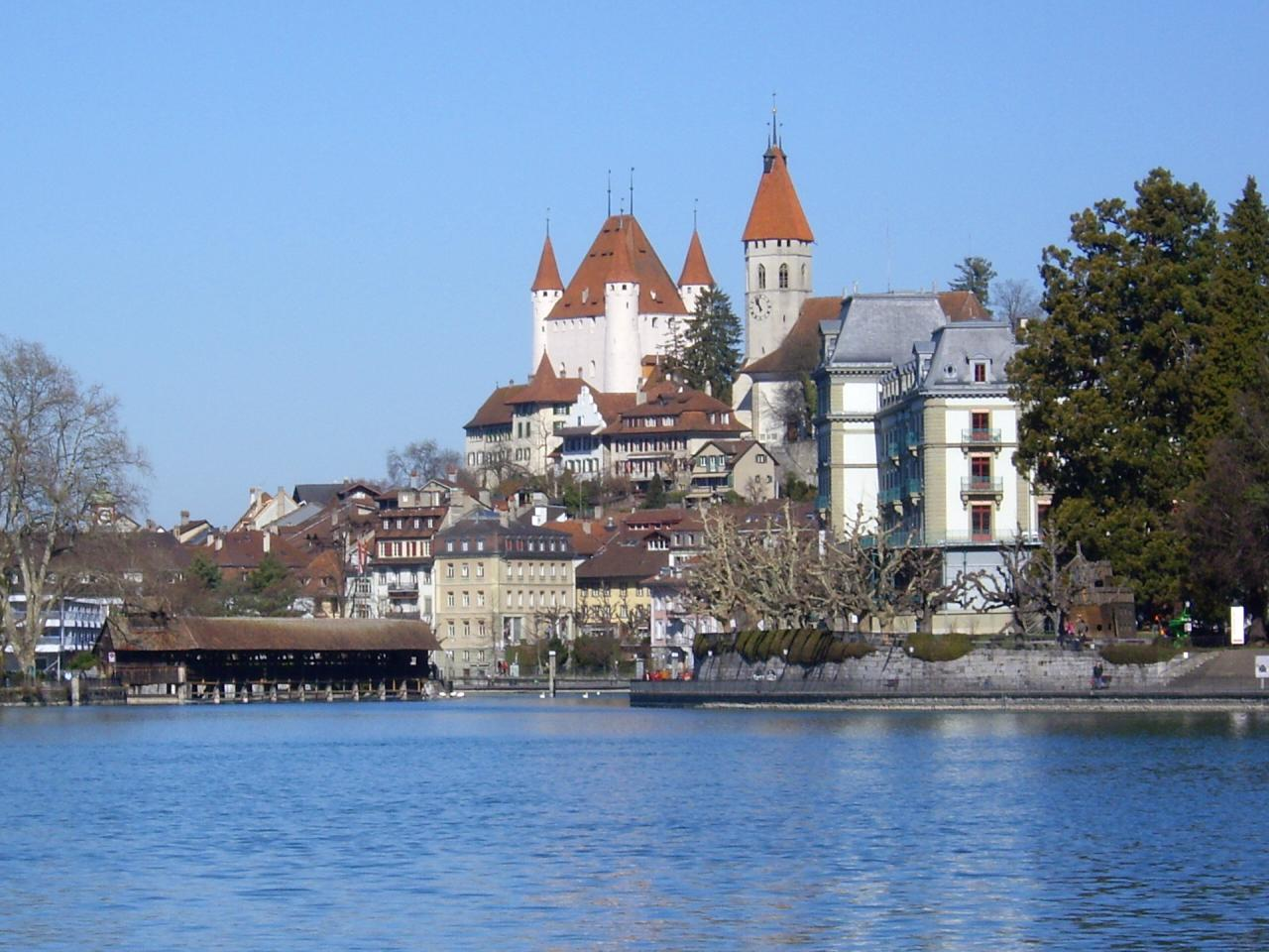 View of Thun from Lake Thun